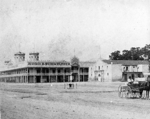 The Hugo & Schmeltzer addition to the Alamo convent property, located in San Antonio, Texas.